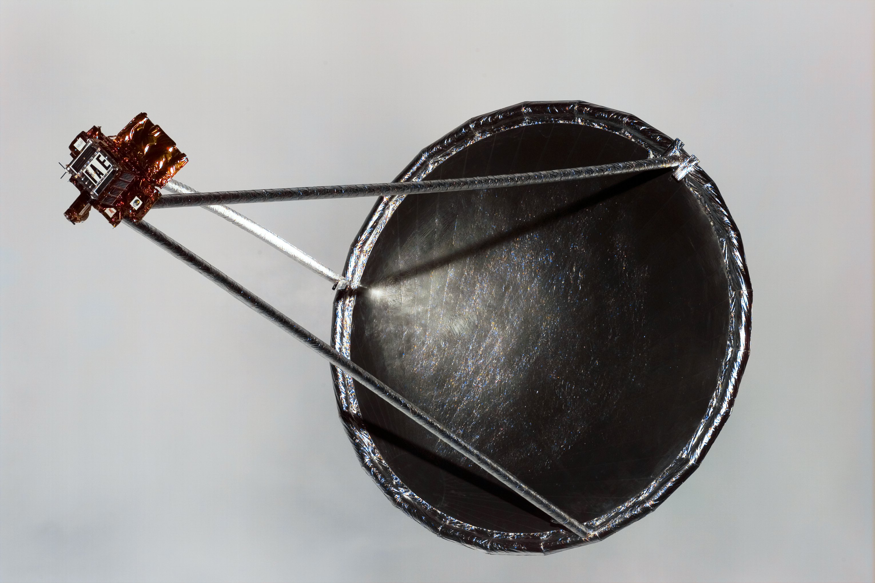 STS-77 ESC VIEW --- Following its deployment from the Space Shuttle Endeavour, the Spartan 207/Inflatable Antenna Experiment (IAE) payload is backdropped against a wall of grayish clouds. The view was photographed with an Electronic Still Camera (ESC) and downlinked to flight controllers on the first full day of orbital operations by the six-member crew. Managed by Goddard Space Flight Center (GSFC), Spartan is designed to provide short-duration, free-flight opportunities for a variety of scientific studies. The Spartan configuration on this flight is unique in that the IAE is part of an additional separate unit which is ejected once the experiment is completed. The IAE experiment will lay the groundwork for future technology development in inflatable space structures, which will be launched and then inflated like a balloon on-orbit. GMT: 08:14:57.